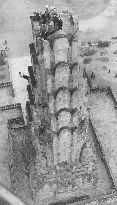 Hakko-Ichiu Monument in 1950s